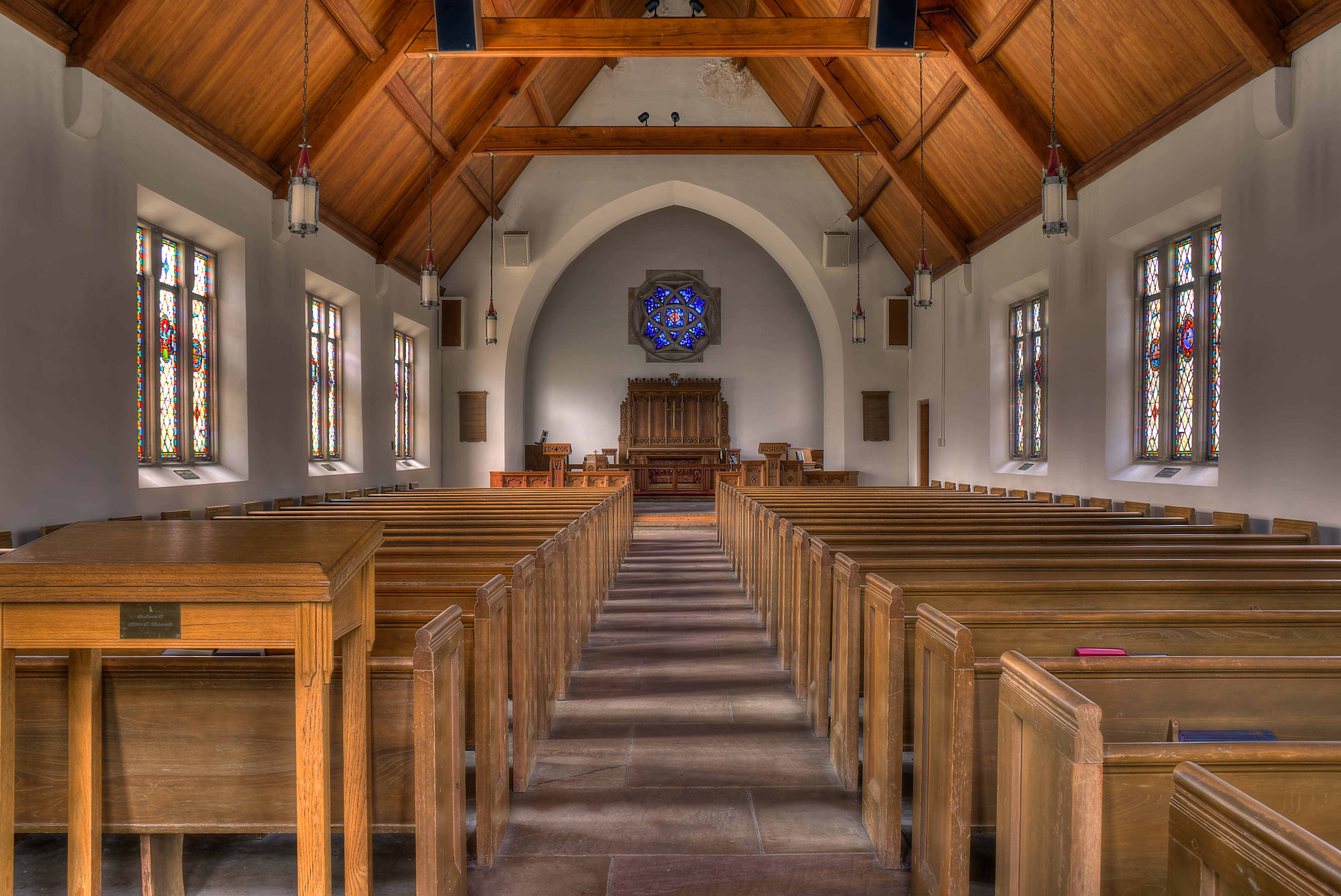 Interior of Chapel